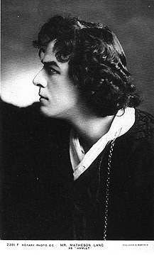 Matheson Lang in Hamlet, c. 1914